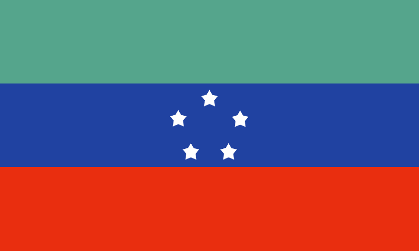 Sidama flag Source : [3] and [4]